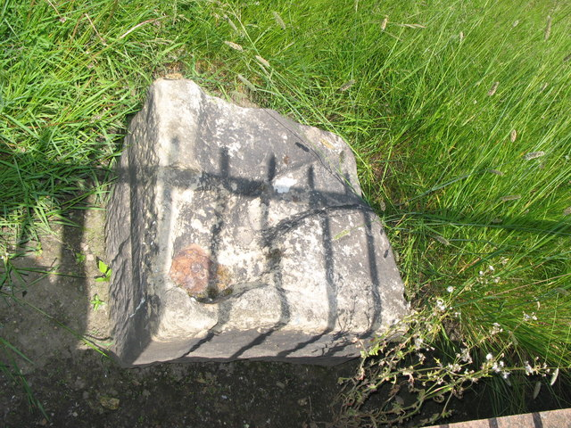 Gateway pivot stone at the Vallum crossing at Benwell Fort